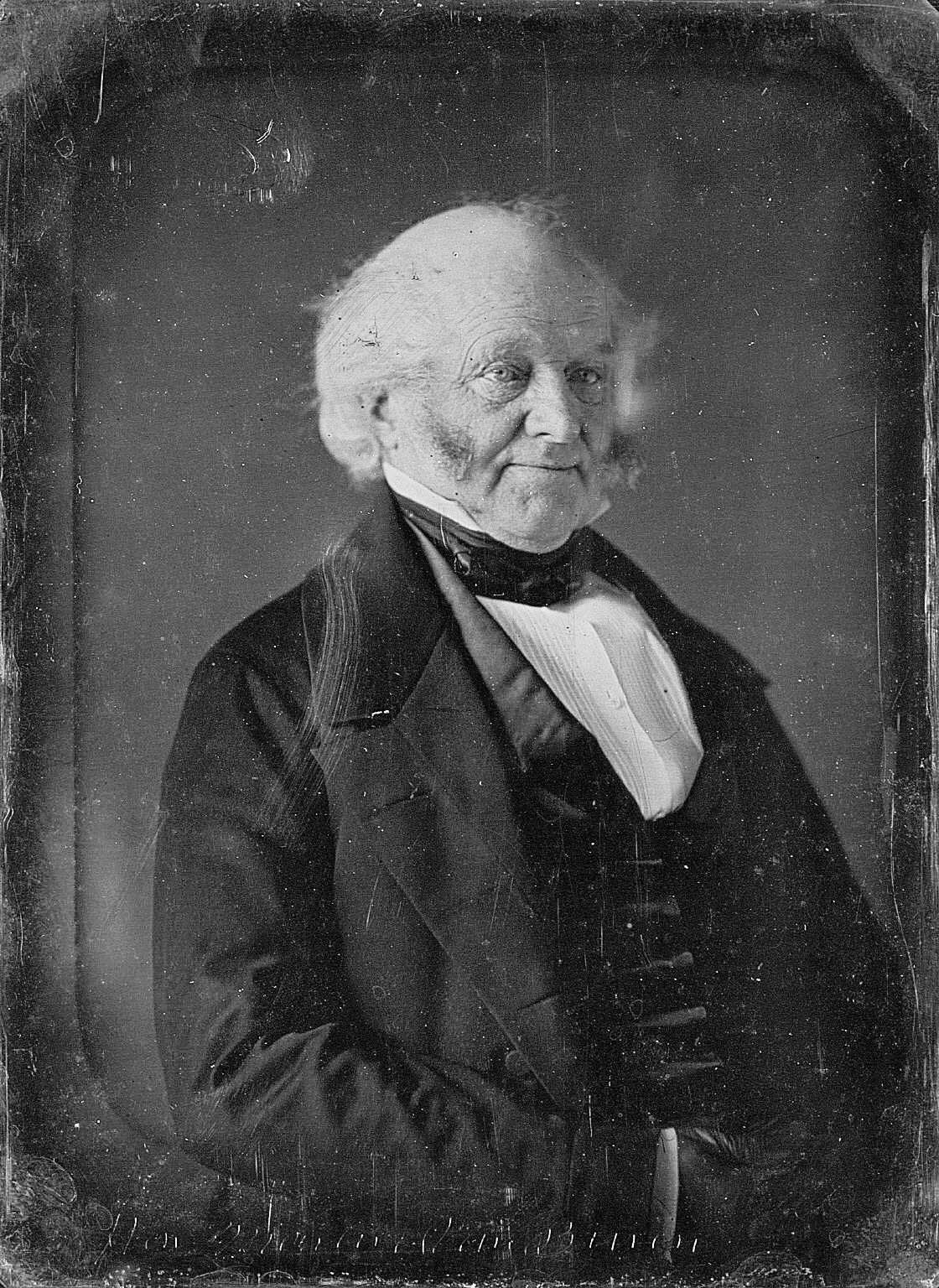 Daguerreotype portrait of Hon. Martin Van Buren, taken at Philadelphia, Penn., 1849-1850, by the photographer Marthew Brady. Courtesy of the Beinecke Rare Book & Manuscript Library, Yale University.[1]